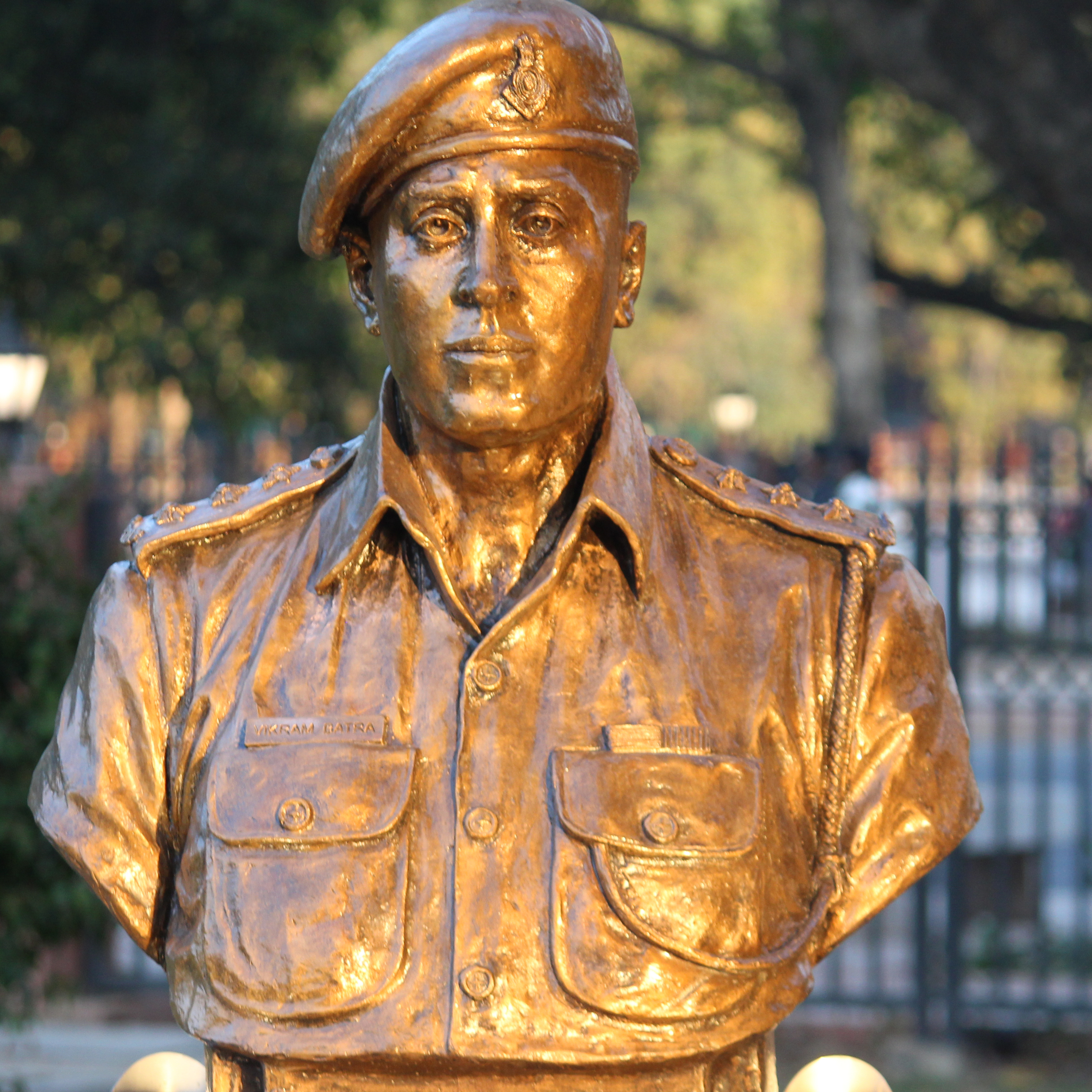 Captain Vikram Batra's statue at Param Yodha Sthal (section for Param Vir Chakra recipients), National War Memorial, New Delhi.